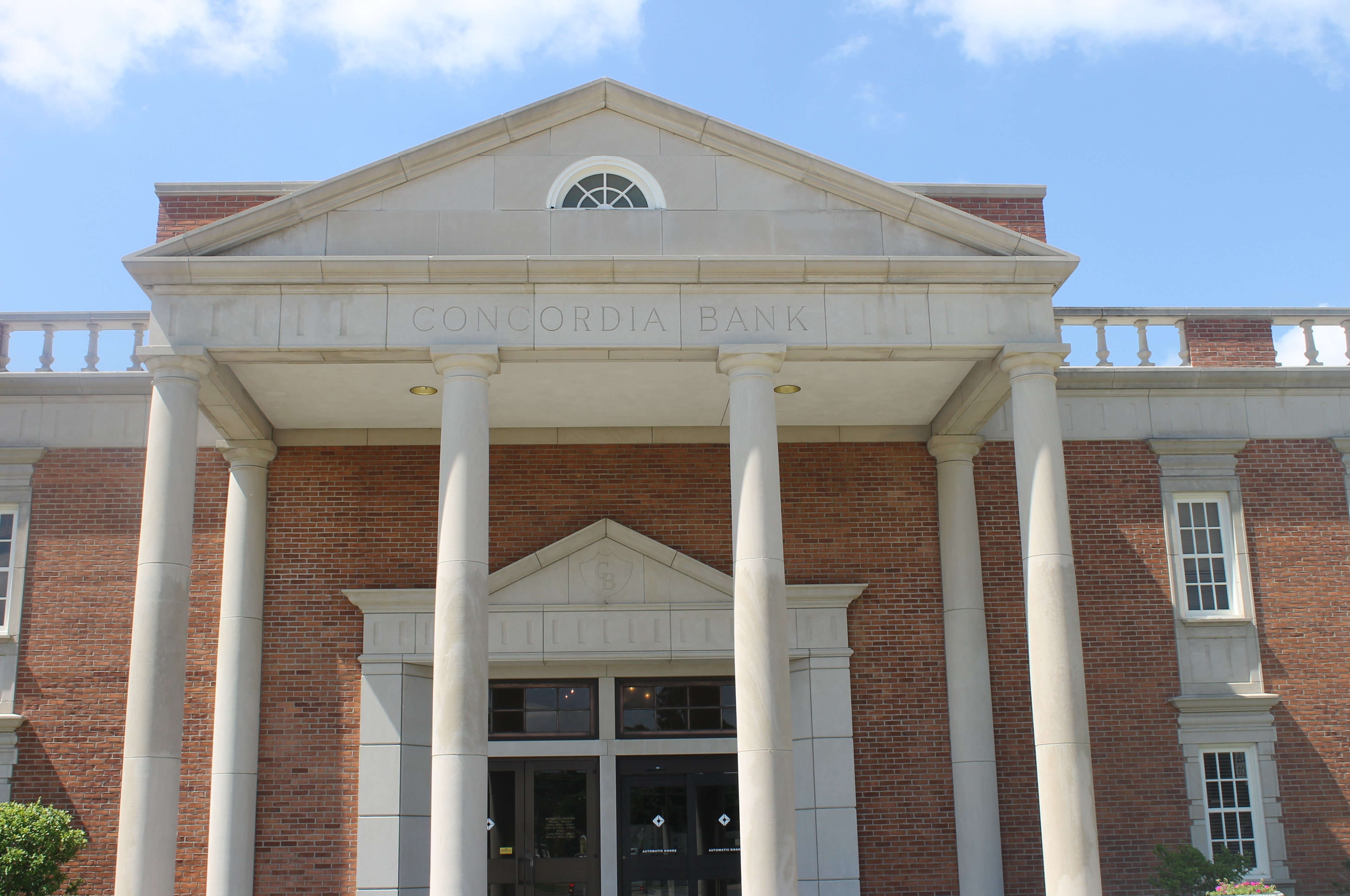 Concordia Bank and Trust Co., in Vidalia, LA